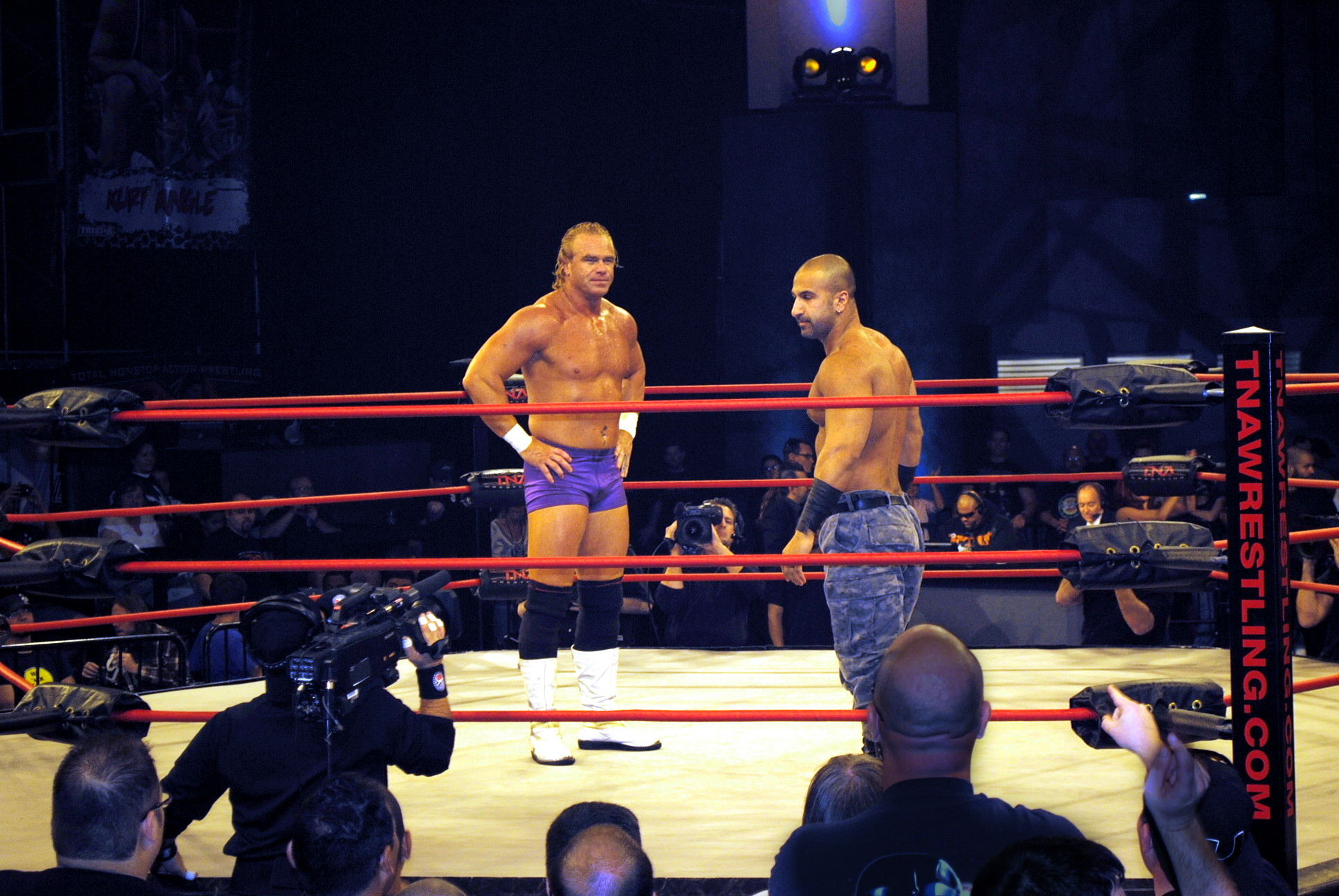 Cute Kip & Bashir